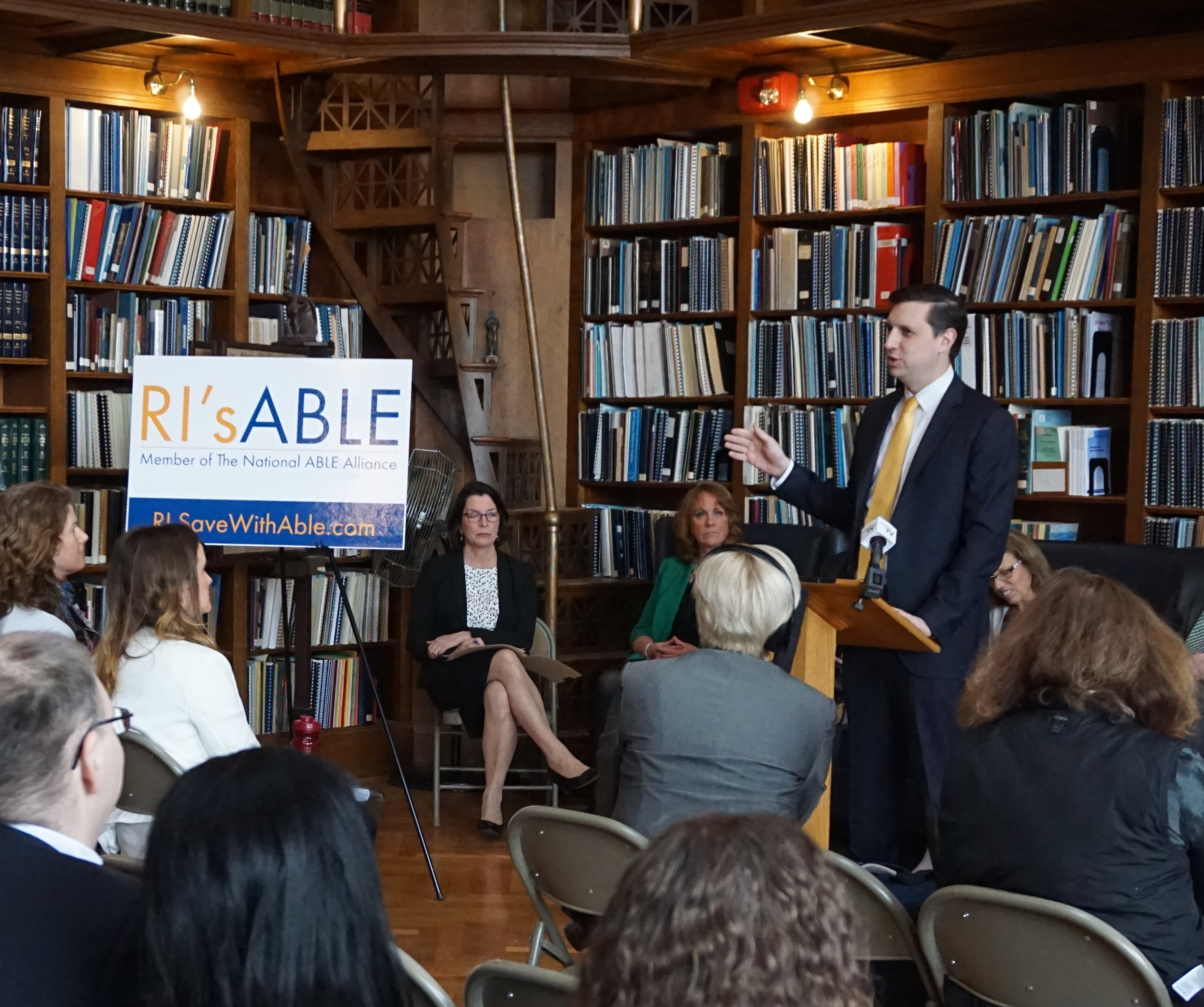 Treasurer Magaziner at the public launch of Rhode Island's ABLE program which allows Rhode Islanders living with disabilities and their families to save for disability related expenses without sacrificing their eligibility for federal disability assistance programs